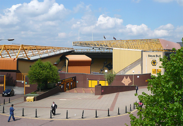 The sun shines anew on the Molineux Stadium, Wolverhampton, near to Wolverhampton, Great Britain. This is the view from the ring road to the south of the stadium. This structure, redeveloped 1991-1993, will once again host top flight Premiership* football - but for how long? Wolves have been playing at Molineux since 1889. I never could understand the logic behind "first", "premier" "championship" and "premiership" word wangles. Was it to make the third tier of English football clubs feel good about themselves by calling them the "first" division?